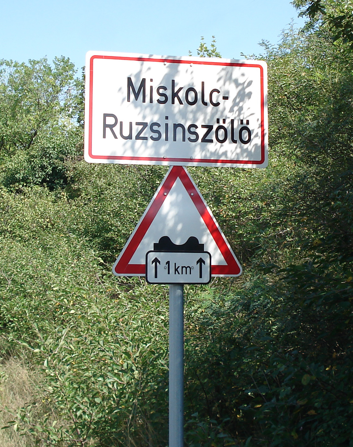 Board of Ruzsinszőlő, Avas, Miskolc